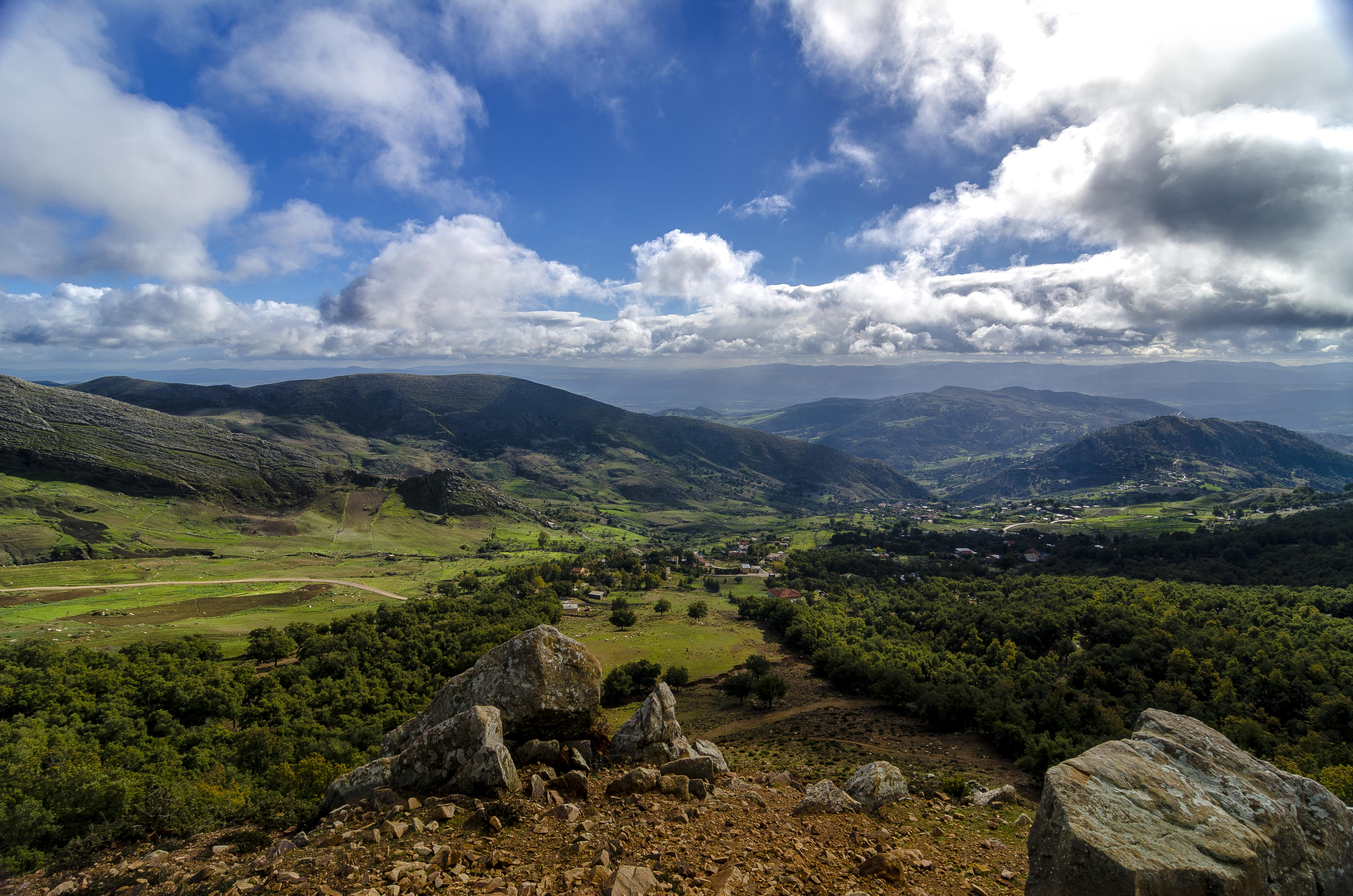 I took this picture near the feija forest